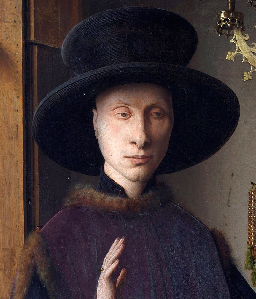 Crop of the painting The Arnolfini Portrait Artist Jan van Eyck (circa 1390–1441) Alternative namesJean van Eyck, Johannes van EyckDescriptionFlemish painter, draughtsman and manuscript illuminatorDate of birth/deathcirca 1390before 9 June 1441Location of birth/deathMaaseikBrugesWork locationThe Hague (1422), Bruges (1425), Lille (1425–1428), Bruges (1431–1441)Authority control : Q102272 VIAF: 54156267 ISNI: 0000 0001 2101 4186 ULAN: 500116209 LCCN: n50048855 NLA: 35072913 WorldCat Title